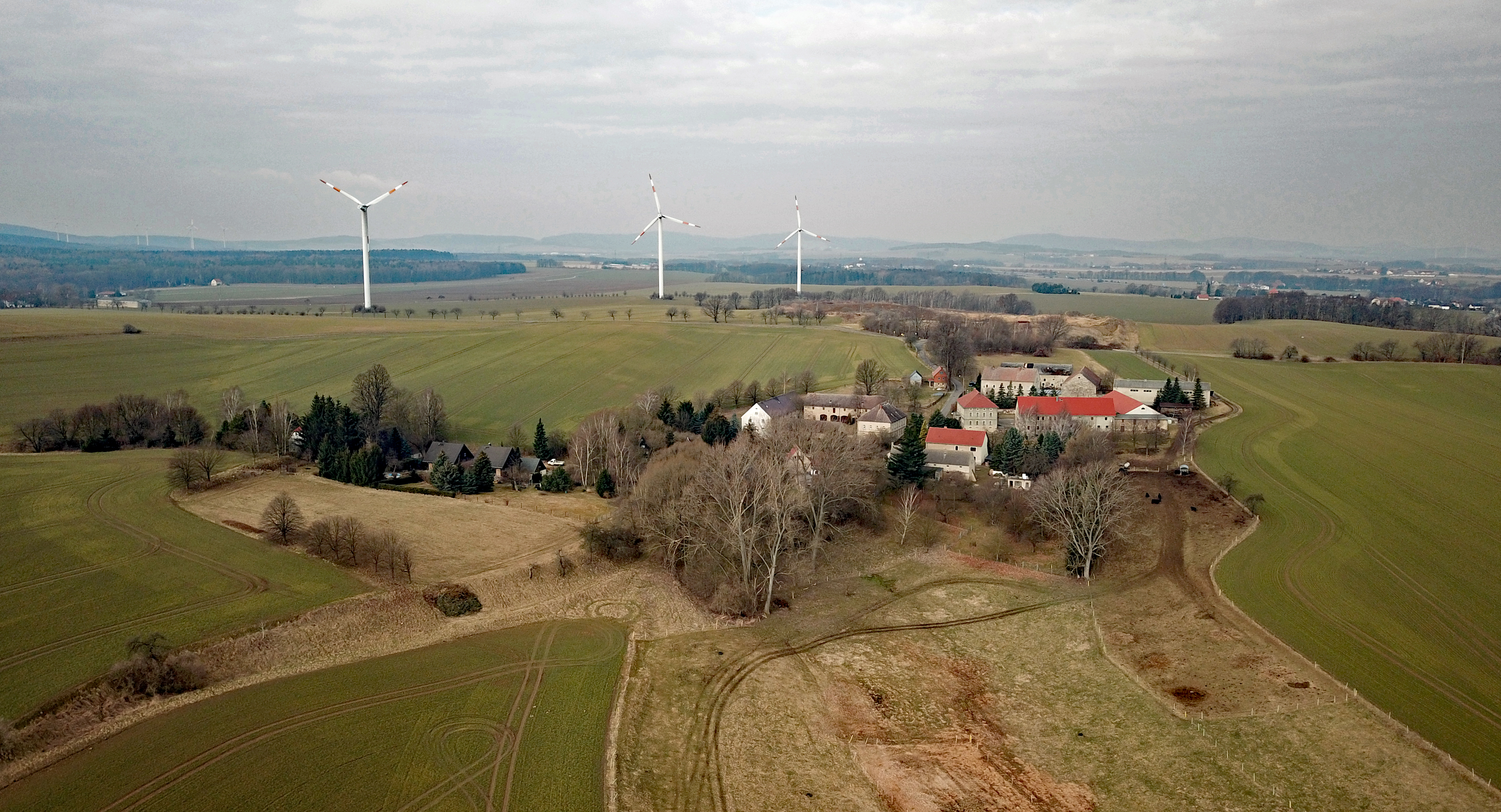 Dobranitz (Göda, Saxony, Germany) Hornjoserbsce: Powětrowy wobraz Dobranec